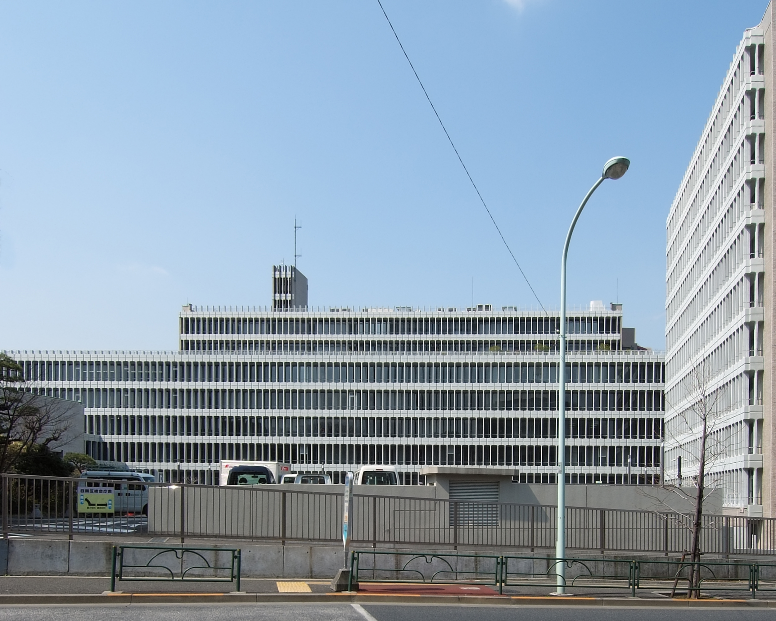 Meguro City Office (Former Chiyoda Life Insurance Company Head Office), at Meguro-ku Tokyo Japan, design by Togo Murano in 1966.